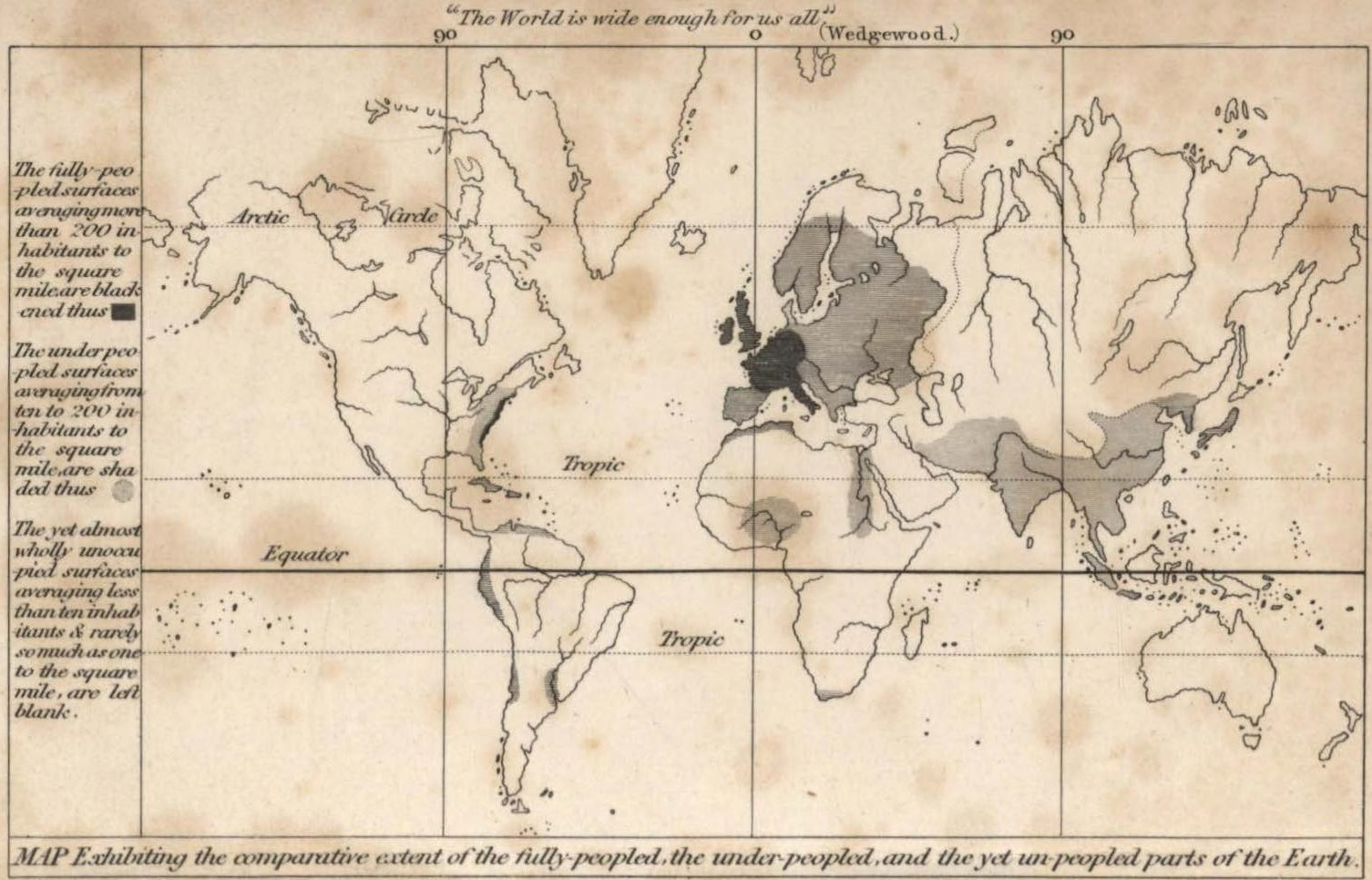 A map of population density, from an 1833 book by George Poulett Scrope on Political Economy. The cartographer is not credited. Obtained from a public domain scan at